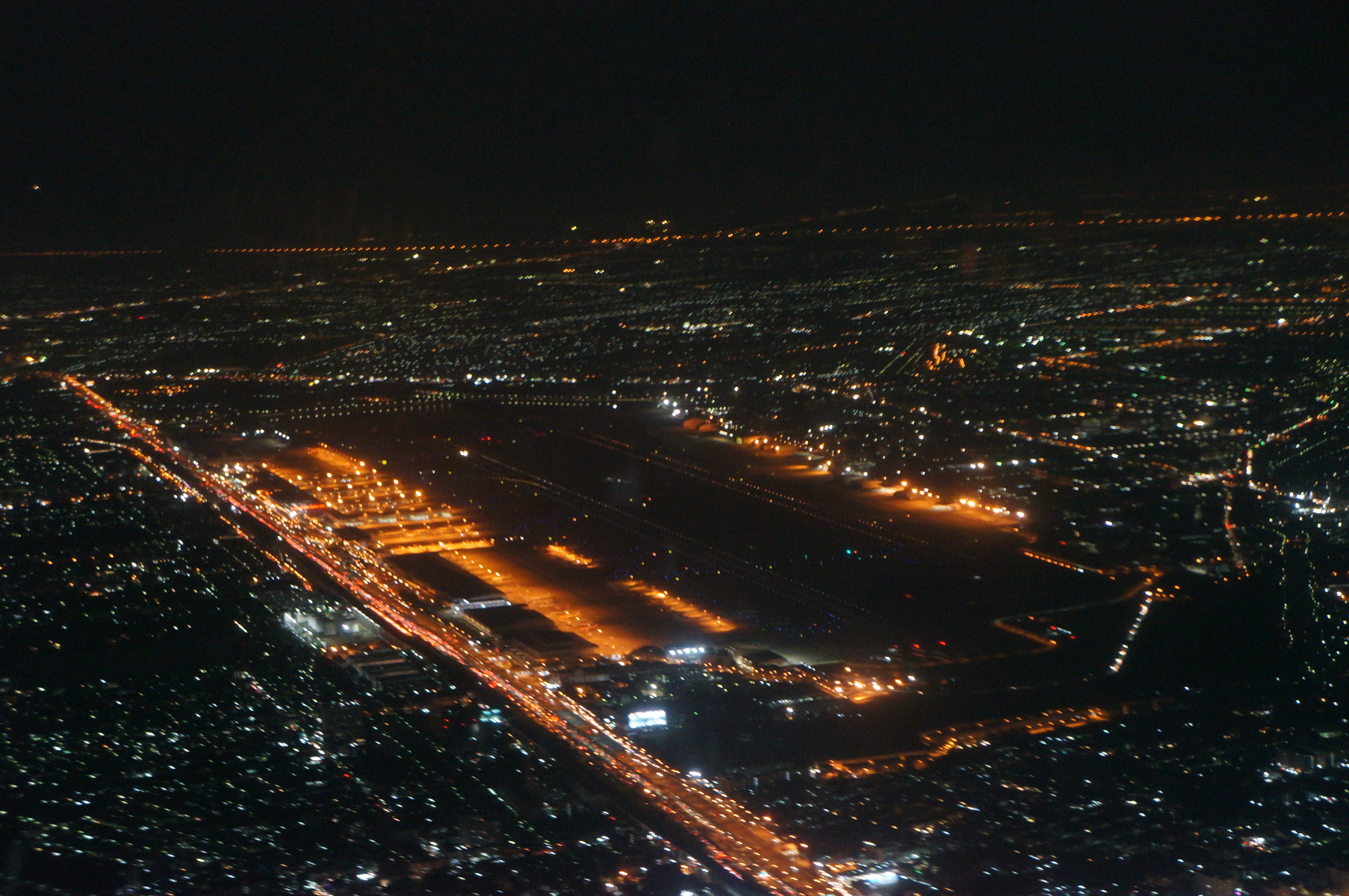 201701 aerial photo of DMK at Night